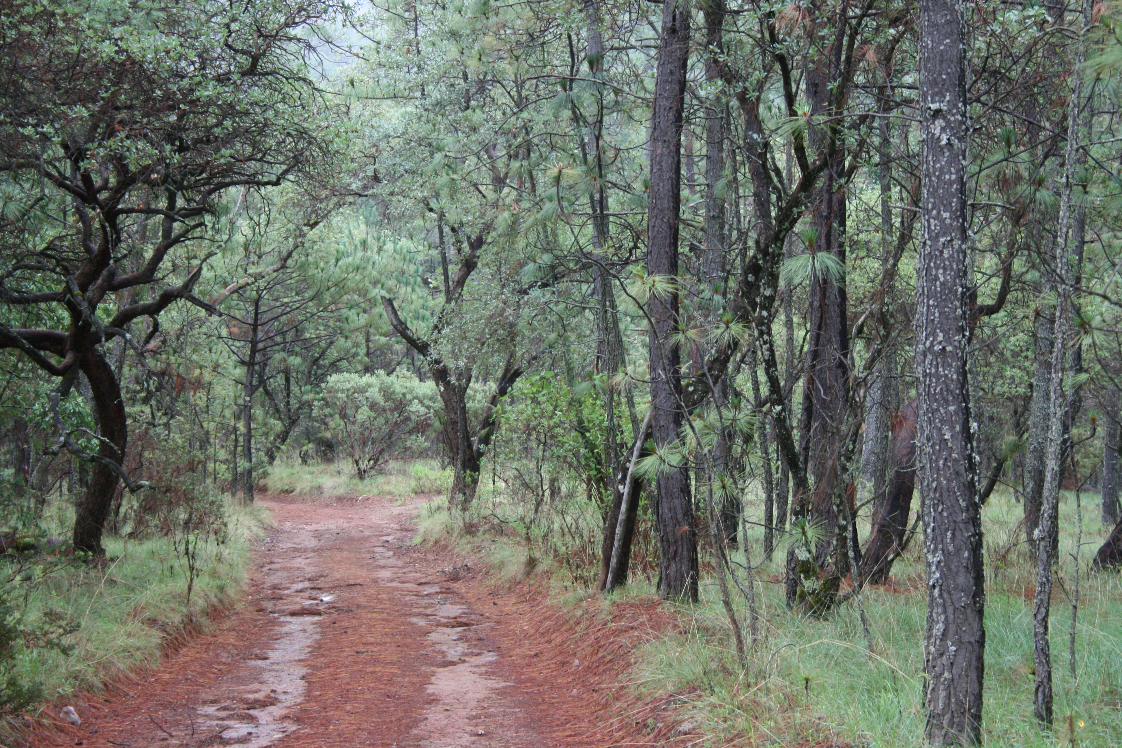 Mud Route in Rancho Mazati.